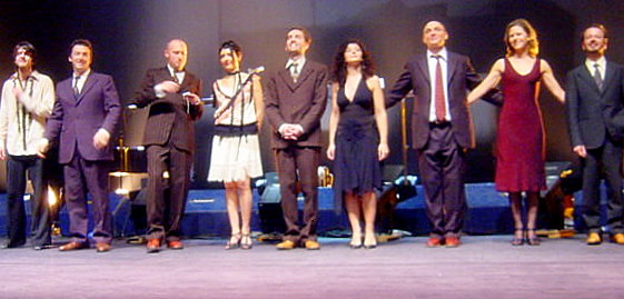 Gotan Project at the end of the concert in Oporto, Portugal.